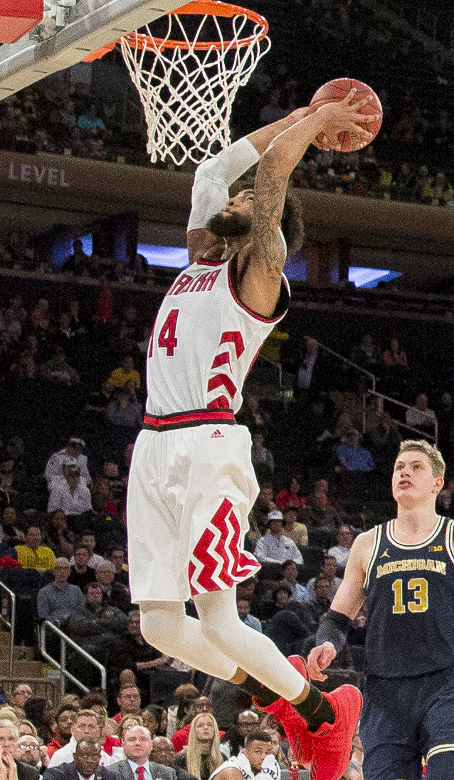 Nebraska'a Anton Gill